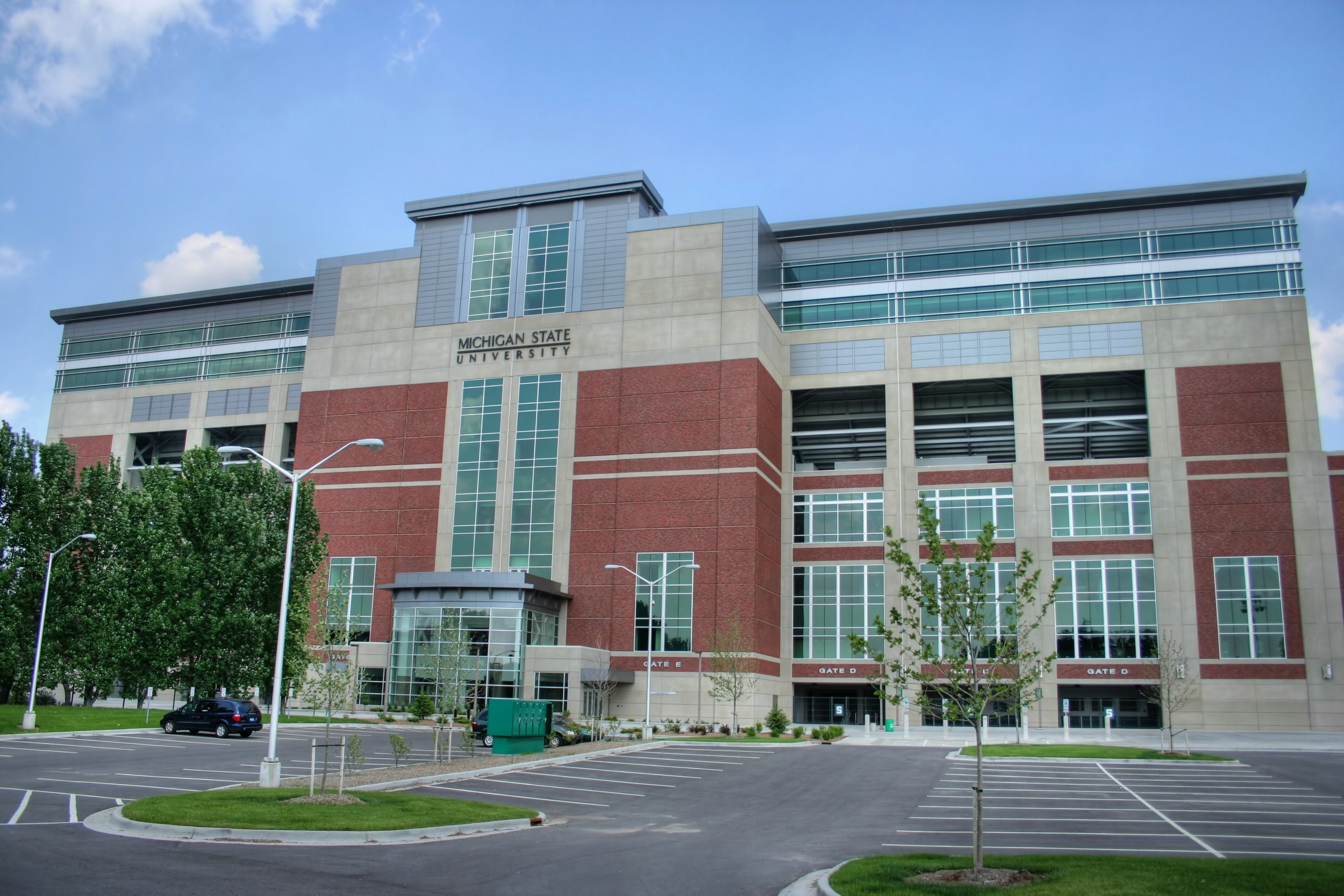 A photograph of the facade of Spartan Stadium, which itself is located on the Michigan State University campus in East Lansing, Michigan. This photograph is one of a series taken for Wikipedia by the submitter on May 28th, 2006 between the hours of 3pm and 6pm.